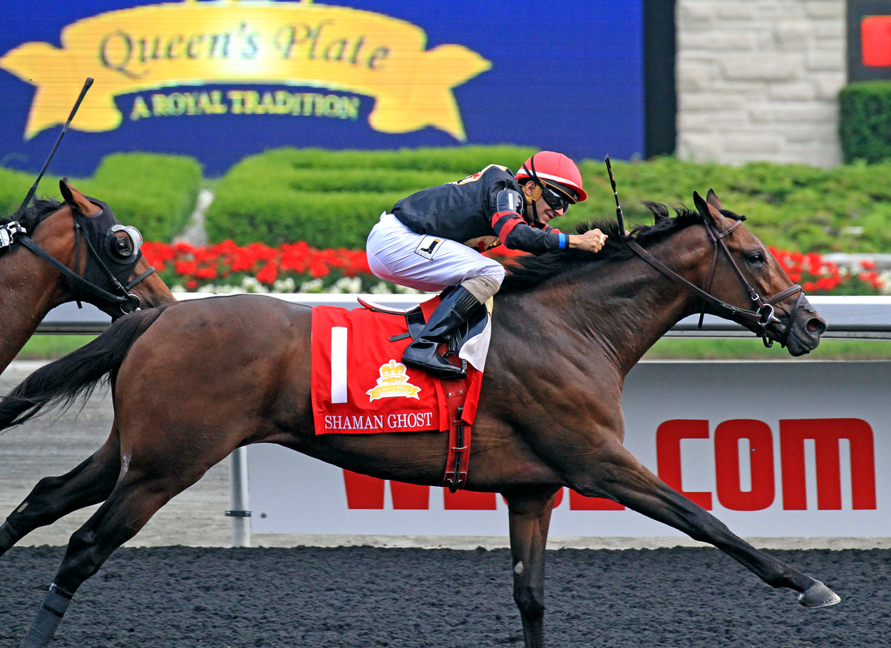 Shaman Ghost wins the 2015 Queen's Plate July 5 at Woodbine Racetrack, Toronto, Ontario. Photographed by Mike F. Campbell (User:76wins).